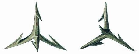 Caltrop from Troitse-Sergiyeva Lavra, before 1609.